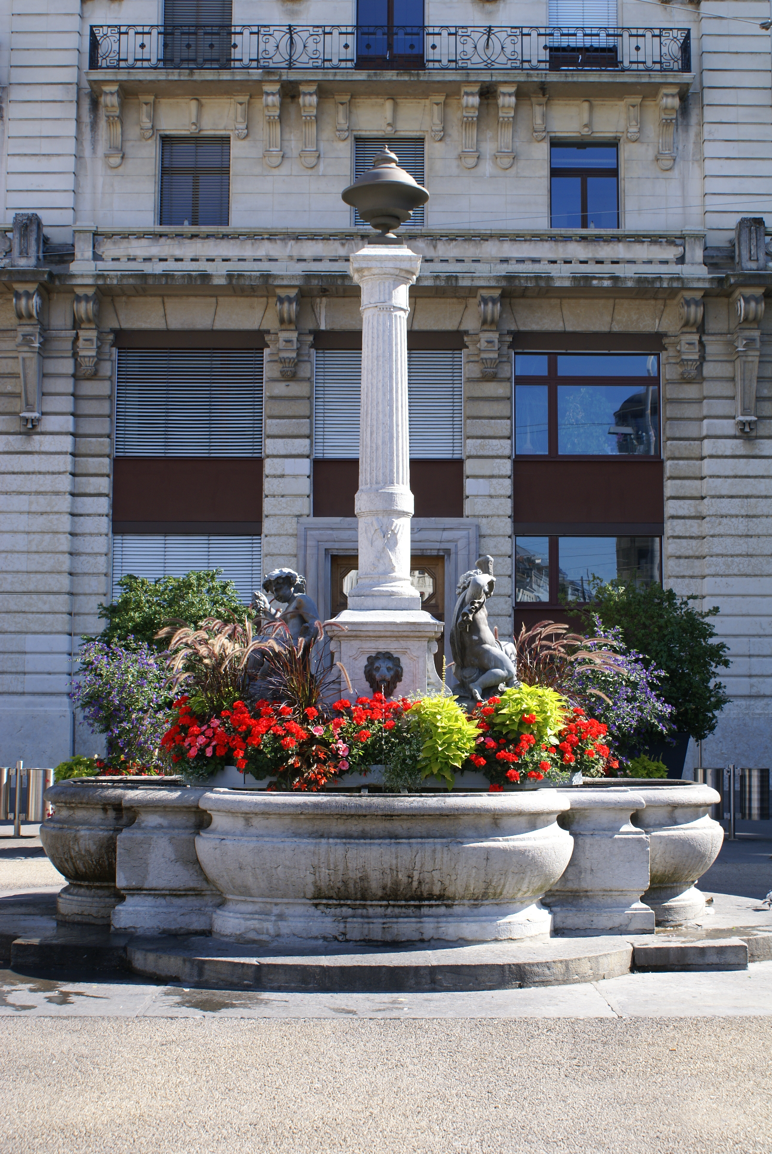 Fountain on the bridge over the Schüss - Central square of Biel/Bienne